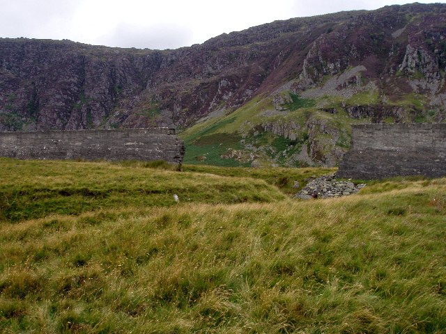 Breached dam of Llyn Eigiau The former reservoir of Llyn Eigiau with the Cefn Tal Llyn Eigiau ridge behind. The water from the breach left quite a deep trench in the surrounding grassland. The incident has been reported as having occurred in 1925, but the 1940s map shows the lake still in its full glory. The western third of the square is within the dam, but it is the same sort of moorland on both sides now.